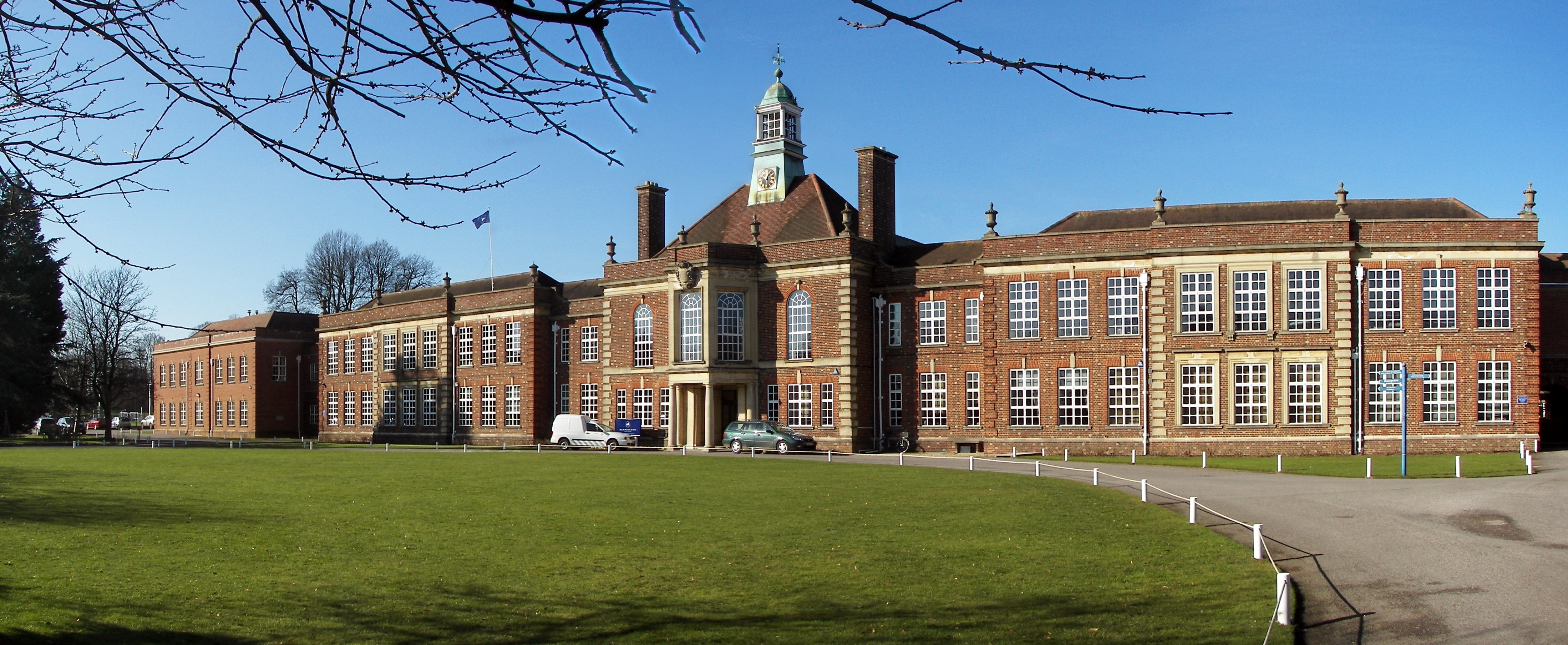 Front of Headington School in Headington, Oxford, UK. This image is a stitching of three separate photos, using Autostitch. I did 'auto white balance' in the Gimp. Also, in one of the three photos there were tree branches in front of the 'tower' above the entrance. I removed some of them before stitching.